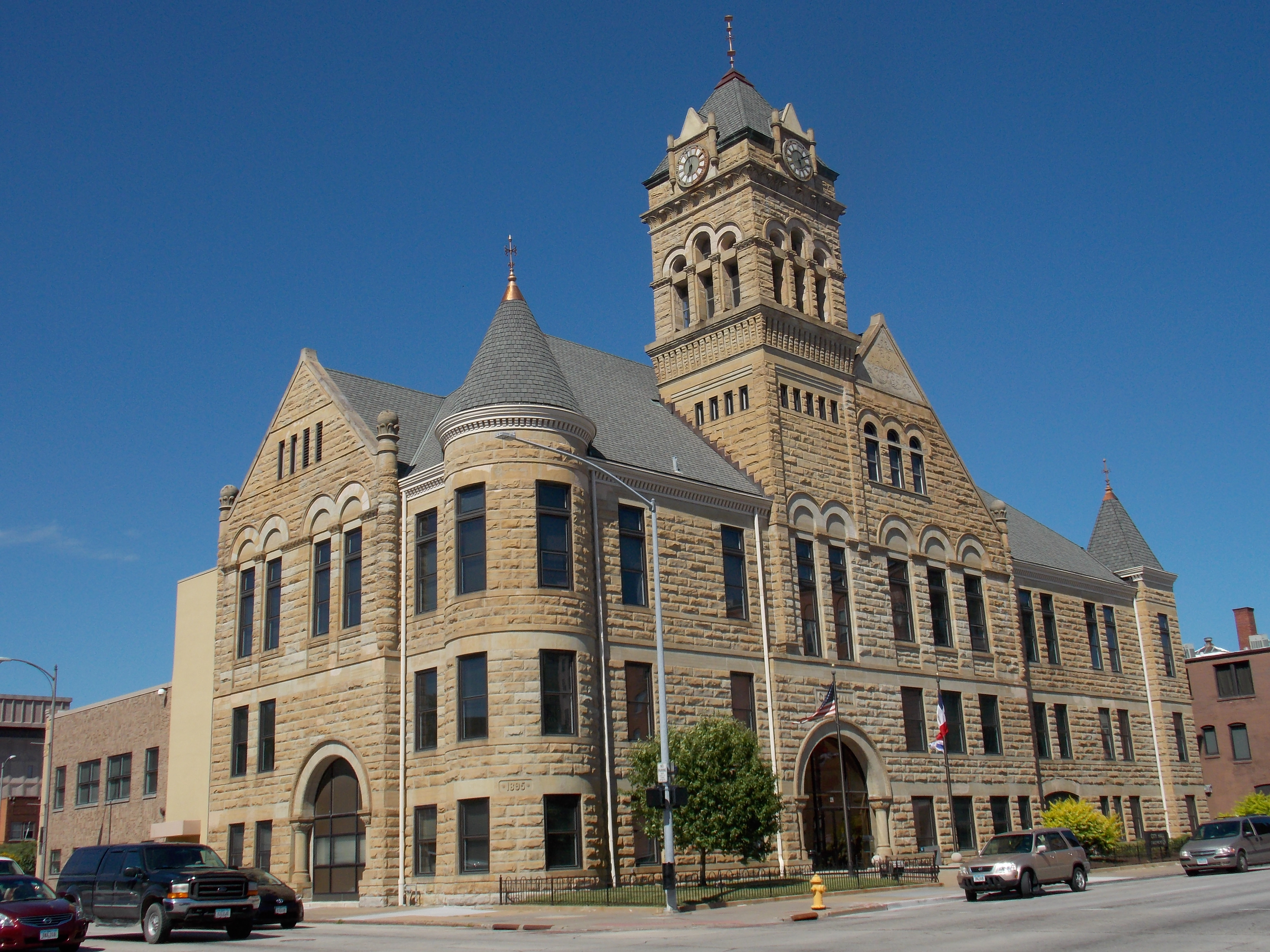 City Hall in Davenport, Iowa is listed on the National Register of Historic Places.